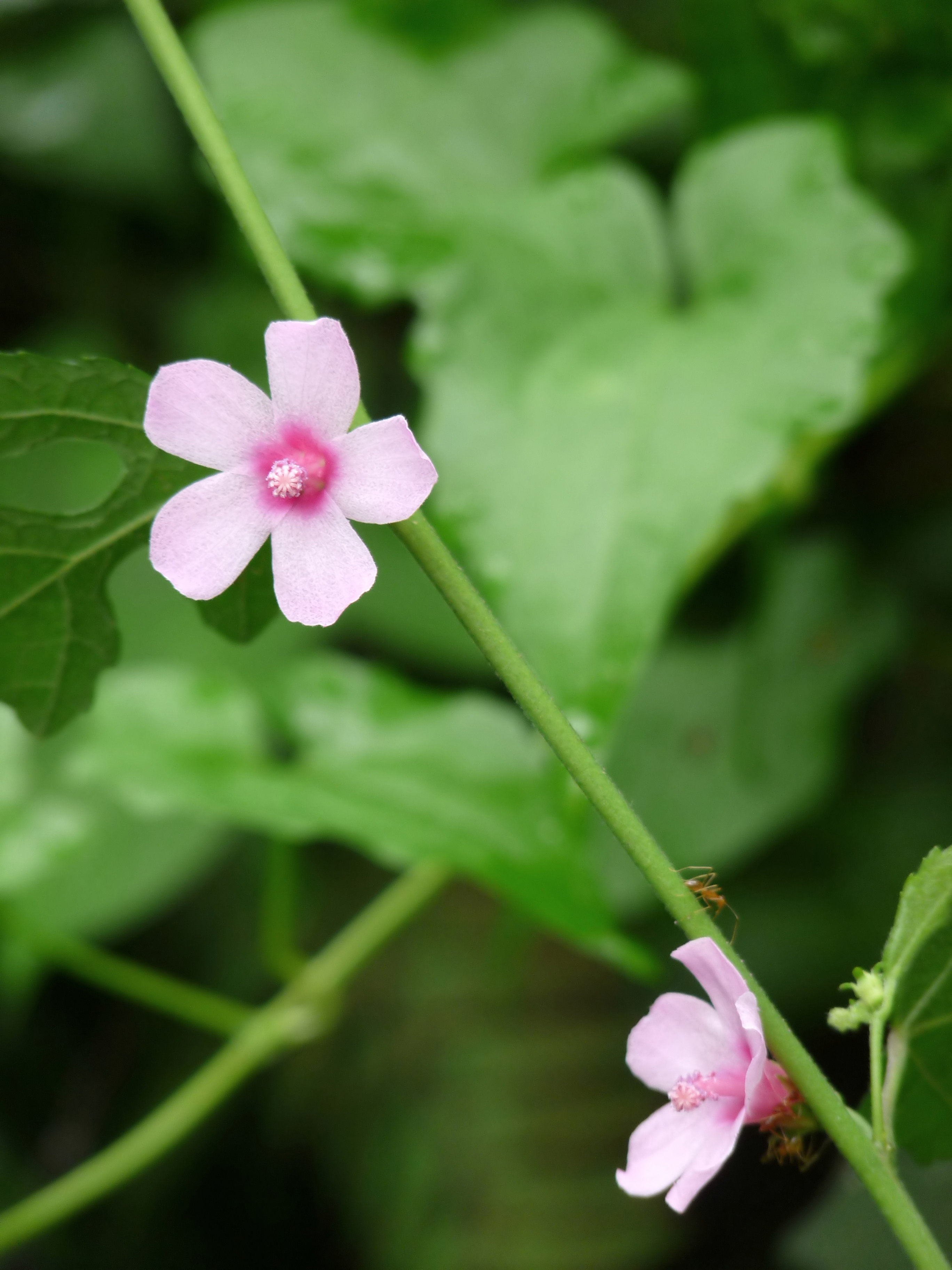 Urena lobata, Caesarweed (Bur mallow, Pink burr) is an annual, variable, erect, ascendant under shrub and measuring up to 0.5 to 2.5 meters tall. The stems are covered with minute star-like hairs and often tinged purple. It is a pantropical weed, having pink flowers like miniature hollyhocks. The lobed leaves are covered in star-shaped plant hairs which give the leaves a grayish color and raspy feel. The derivation of the common name is uncertain, but may have come from the Latin caesius "bluish-gray" or caesariatus "covered in hair". The ovary of the flower is five-carpellate. If pollinated, each carpel or chamber will produce a seed. The fruit, about a centimeter in diameter, is a flattened globe and dries when mature. It snaps easily from the plant and each of the five wedge-shaped mericarps separate. The outer surface of each mericarp is covered with glochids, minute hooked spines that cling to fabrics and fur and tangle in hair. It is widely distributed as a weed in the tropics of both hemispheres including Southeast Asia. Originally published at Urena lobata